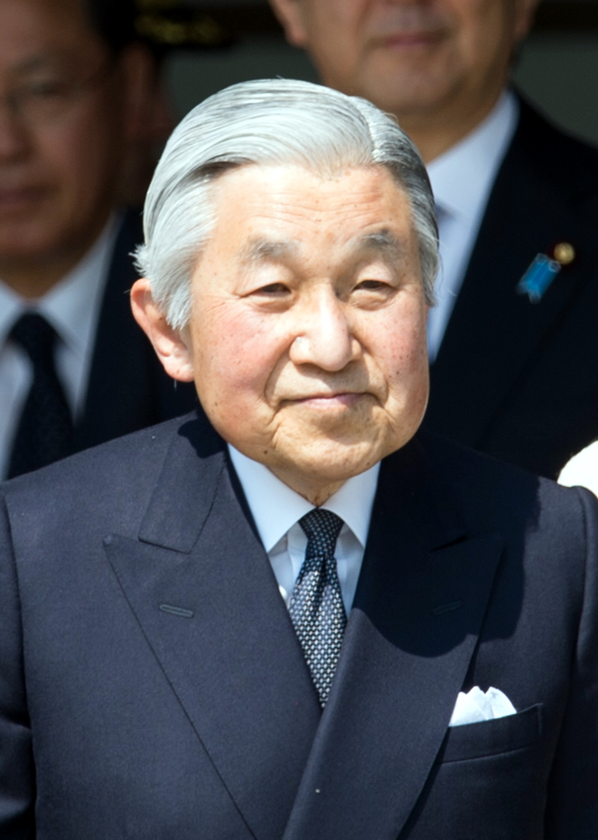 Barack Obama, President, met Emperor Akihito and Empress Michiko with Shinzō Abe, Prime Minister, and Akie Abe, Shinzō's wife, at the Tokyo Imperial Palace in Chiyoda Ward, Tōkyō Metropolis on April 24, 2014.